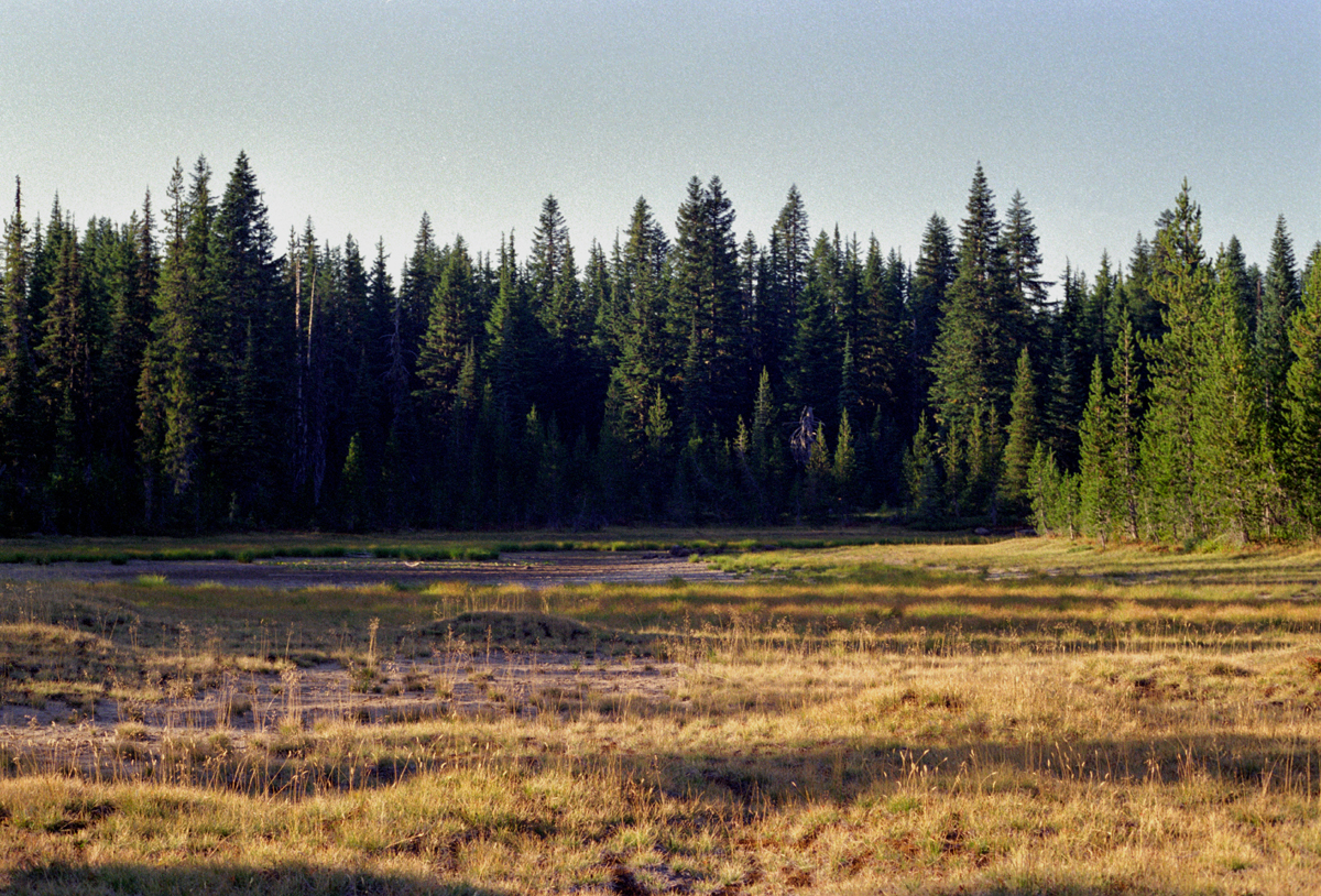 This meadow at the base of Red Mountain in Indian Heaven is known as the Indian Racetrack. Native Americans from various tribes gathered here to race ponies up to the early 1900's.